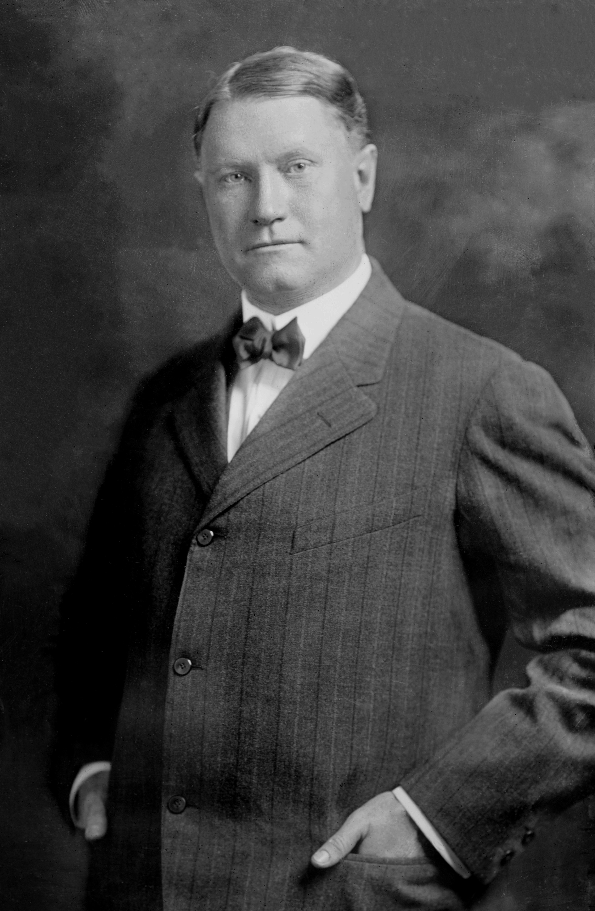 Bain News Service,, publisher. H. W. Thornton circa 1914 [between ca. 1910 and ca. 1915] 1 negative : glass ; 5 x 7 in. or smaller. Notes: Title from unverified data provided by the Bain News Service on the negatives or caption cards. Forms part of: George Grantham Bain Collection (Library of Congress). Format: Glass negatives. Repository: Library of Congress, Prints and Photographs Division, Washington, D.C. 20540 USA, General information about the Bain Collection is available at Persistent URL: Call Number: LC-B2- 2998-14